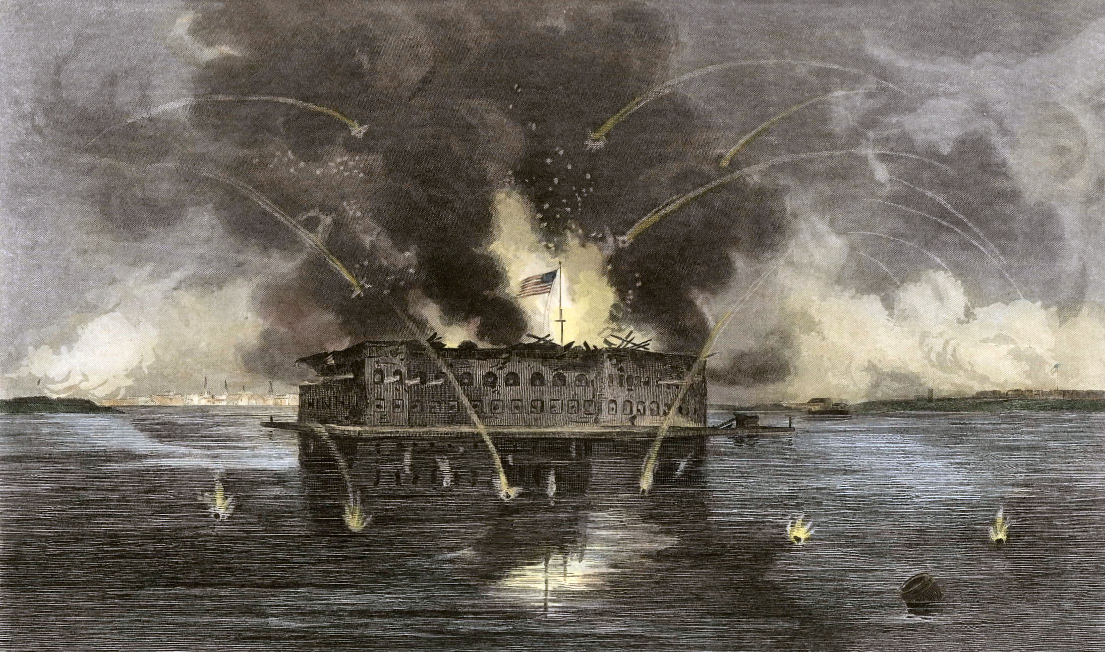 "The bombardment of Fort Sumter, 1861", an 1863 engraving by George Edward Perine (1837-1885). Courtesy of the United States National Park Service, Department of the Interior.